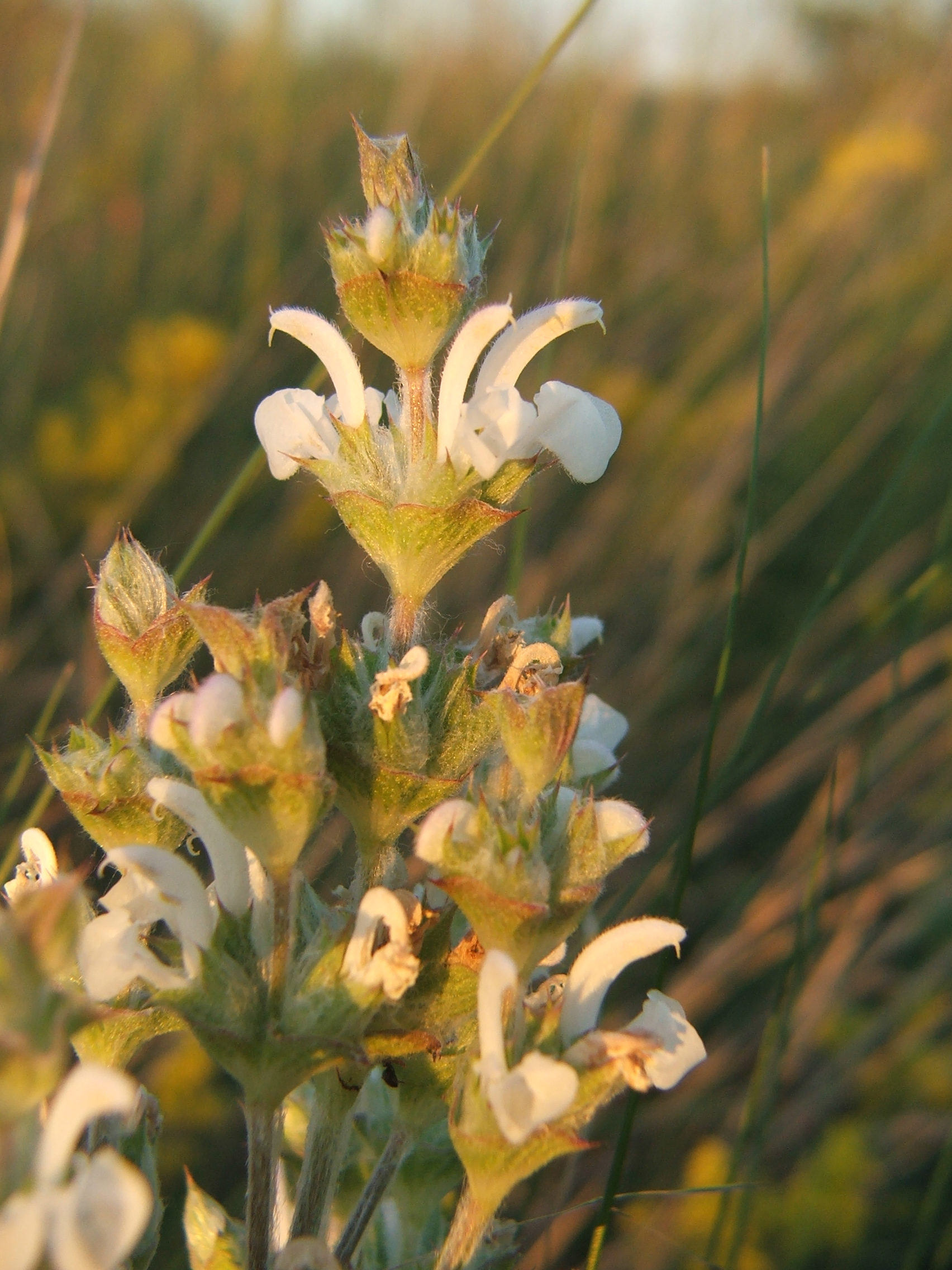 Salvia aethiopis